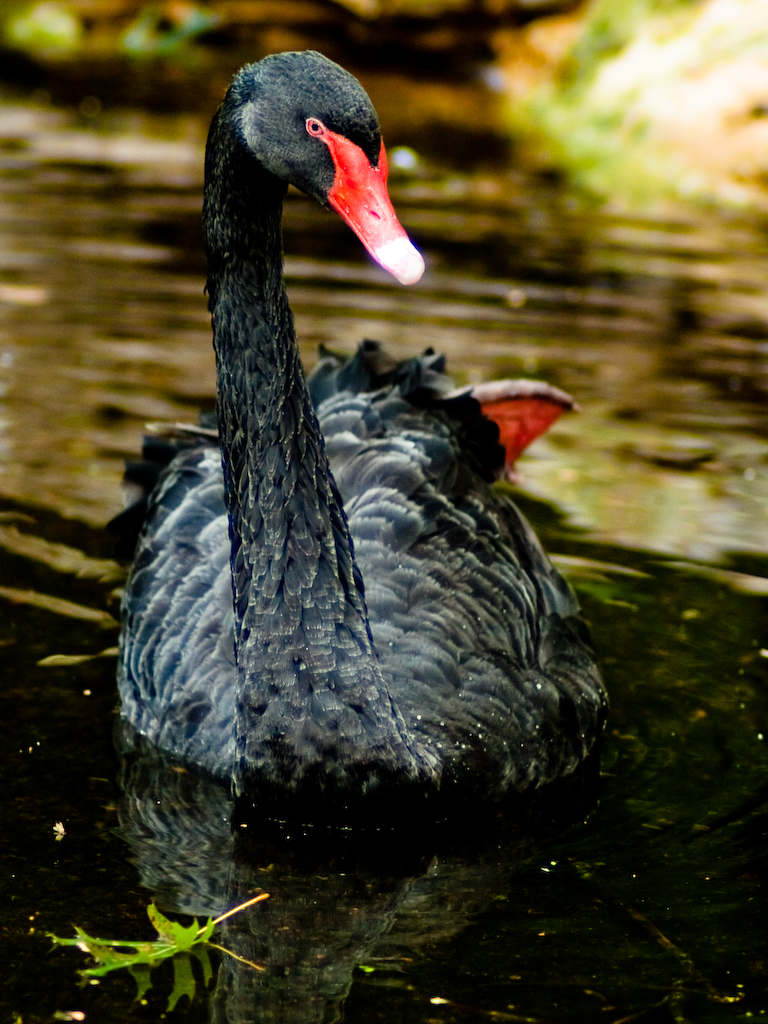 Black Swan (Cygnus atratus) in Fort Worth Zoo